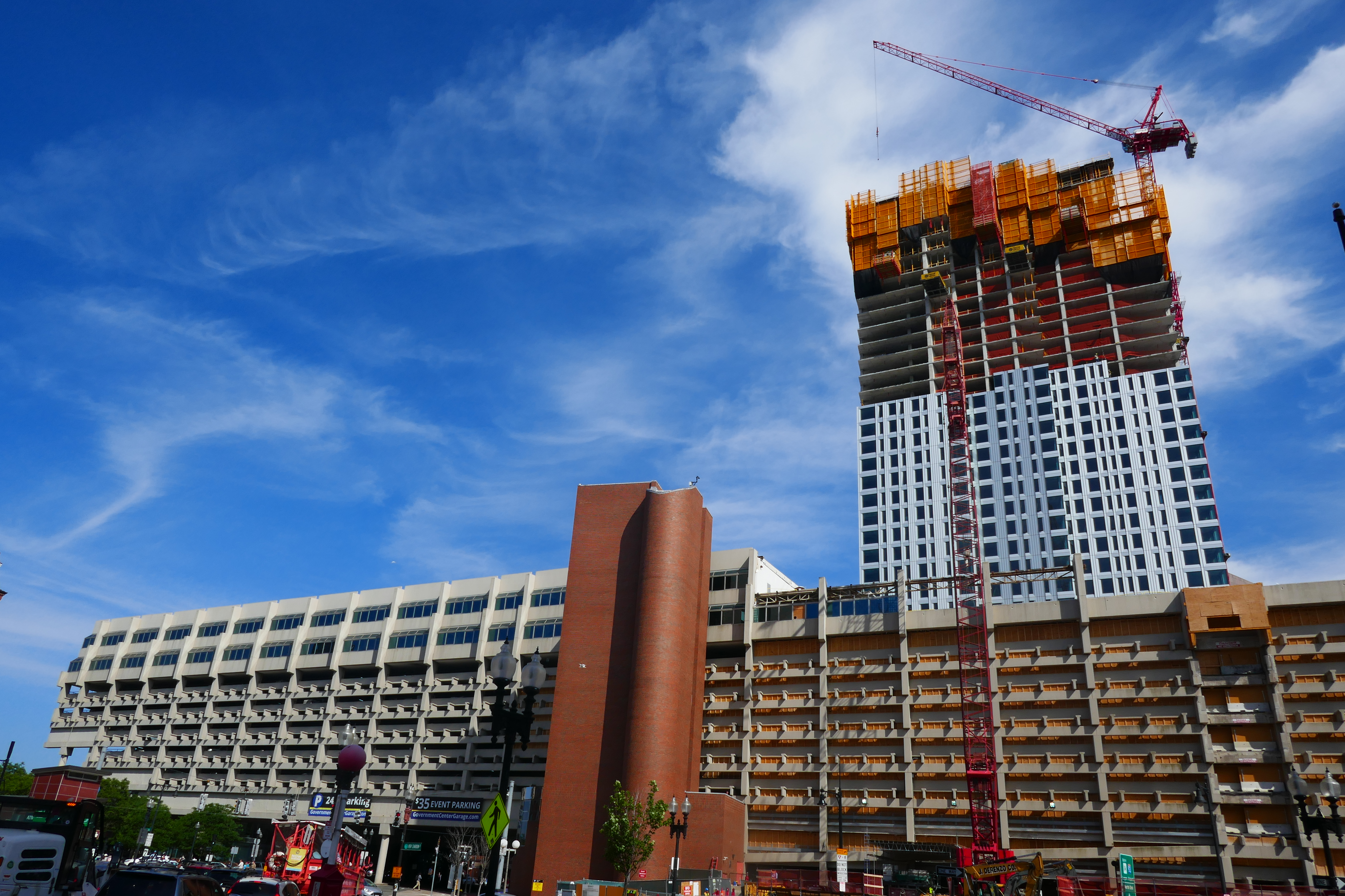 The first tower of the Bulfinch Crossing redevelopment of the Government Center Garage, under construction in June 2019.